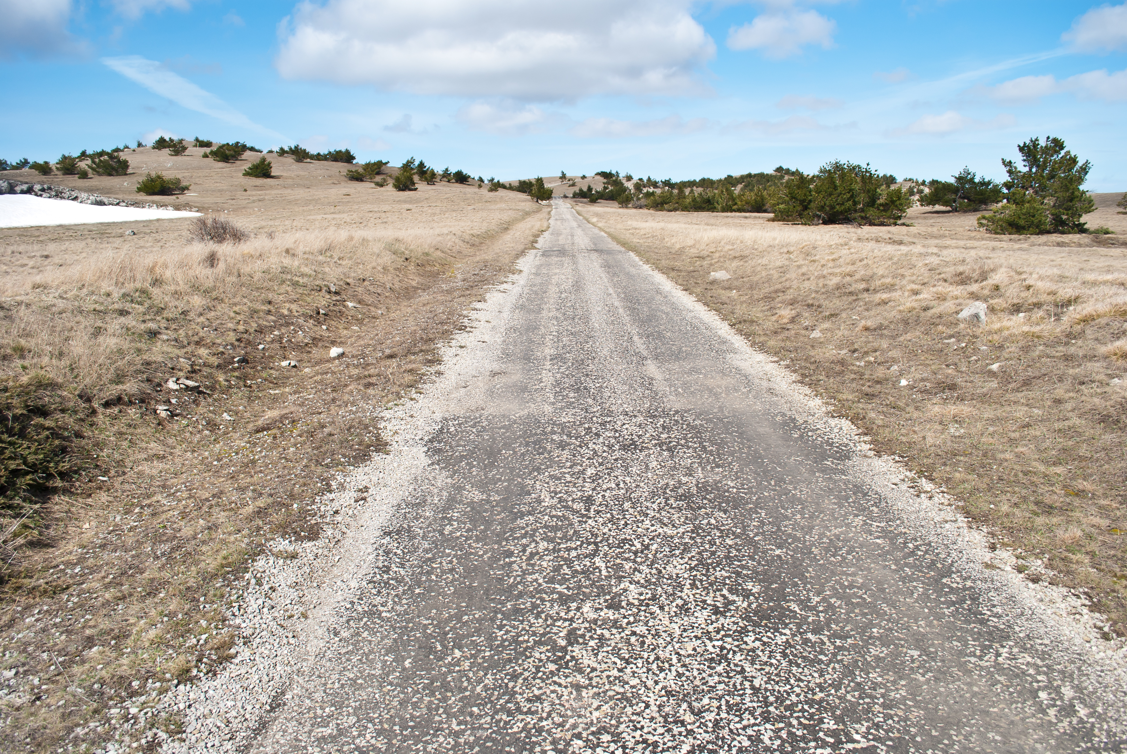 Romanov Road (Crimea, R-34) on the Gurzuf yayla.